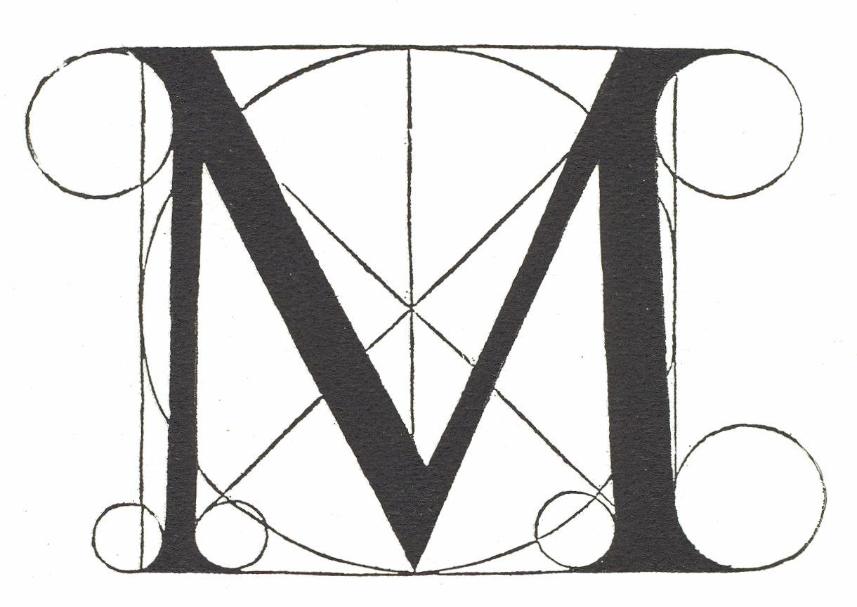 Letter M as designed and published by Fra Luca Pacioli: De Divina Proportione, Paganino dei Paganini, Venice 1509.